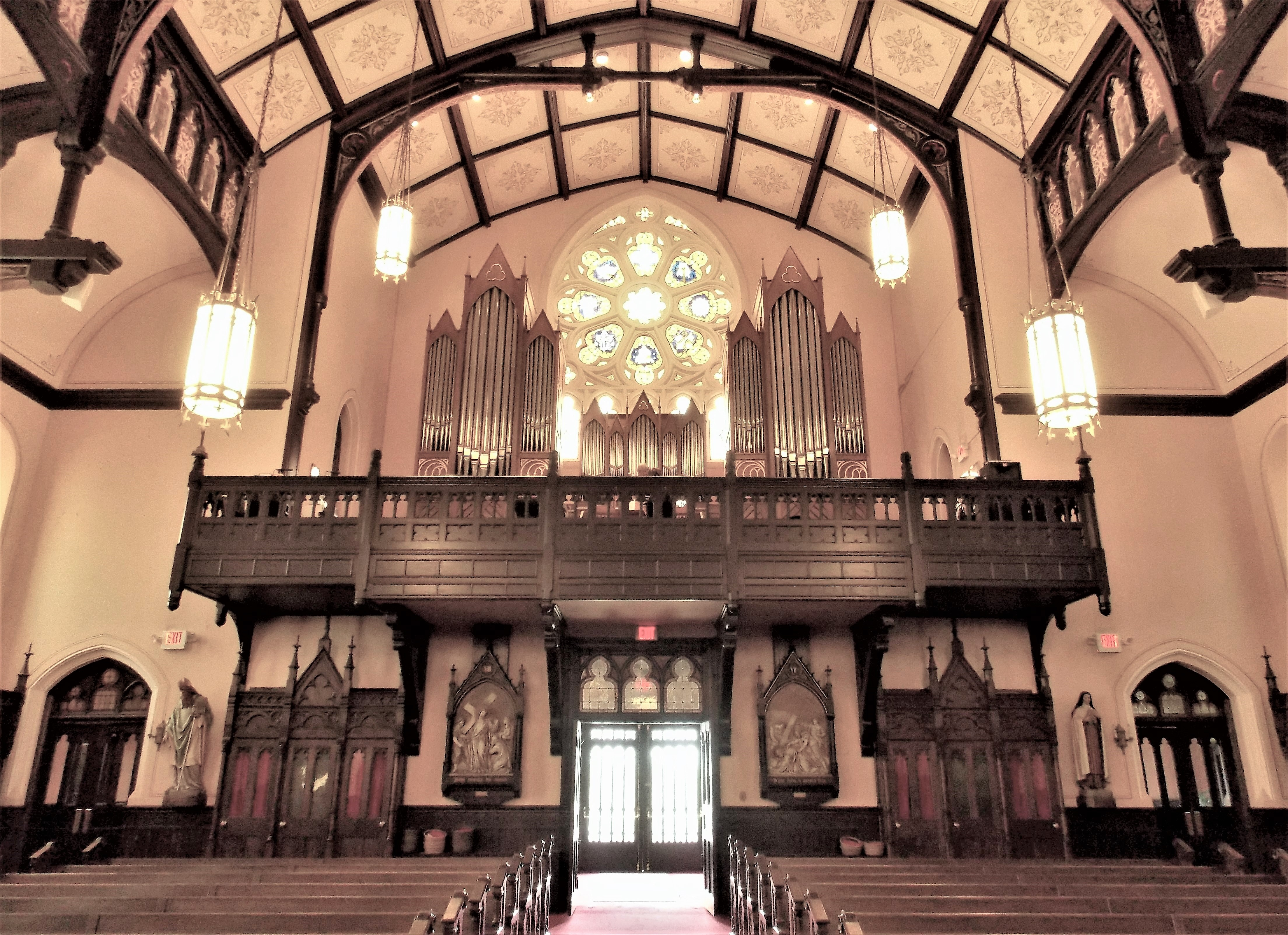 The pipe organ at Sacred Heart Cathedral in Davenport, Iowa.